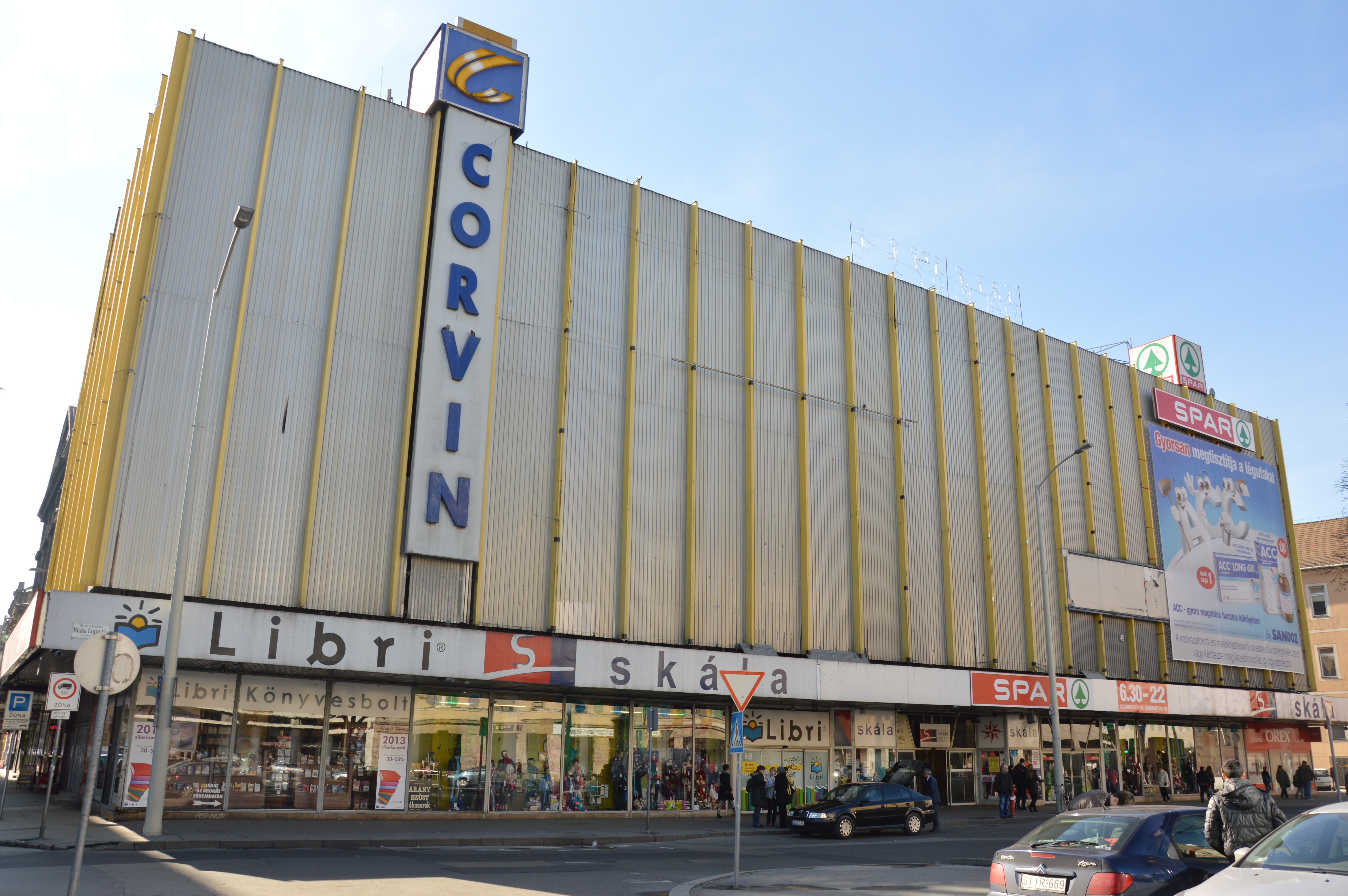 Corvin Department Store in Blaha Lujza tér.